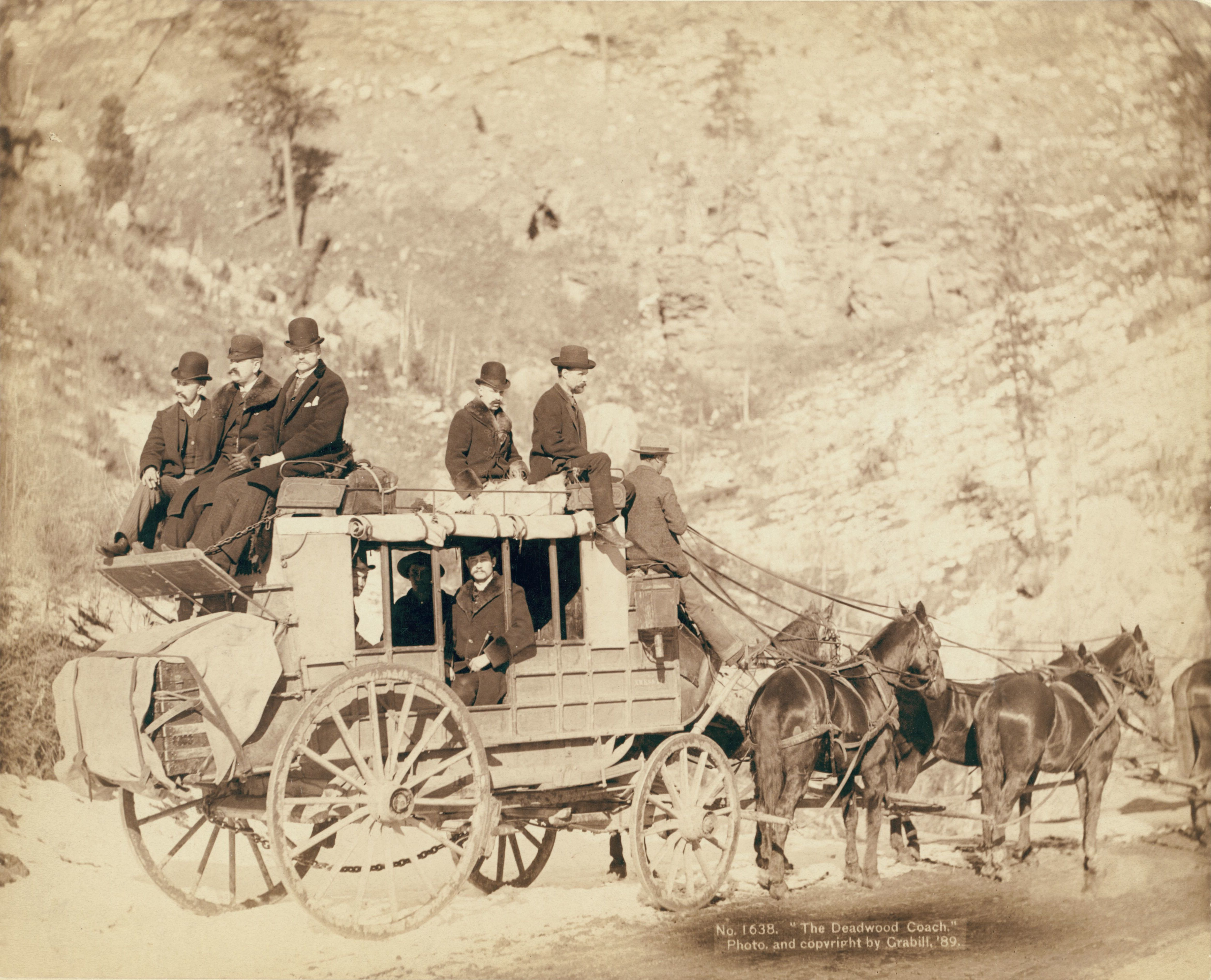 Original title "The Deadwood Coach" Side view of a stagecoach; formally dressed men sitting in and on top of coach.